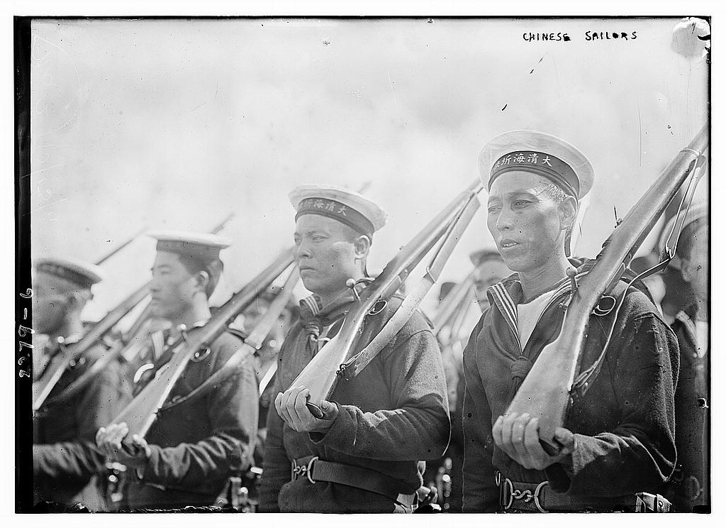 Sailors from the Imperial Qing Navy Cruiser Hai Chi on parade in New York in 1911; all the sailors had cut off their queues